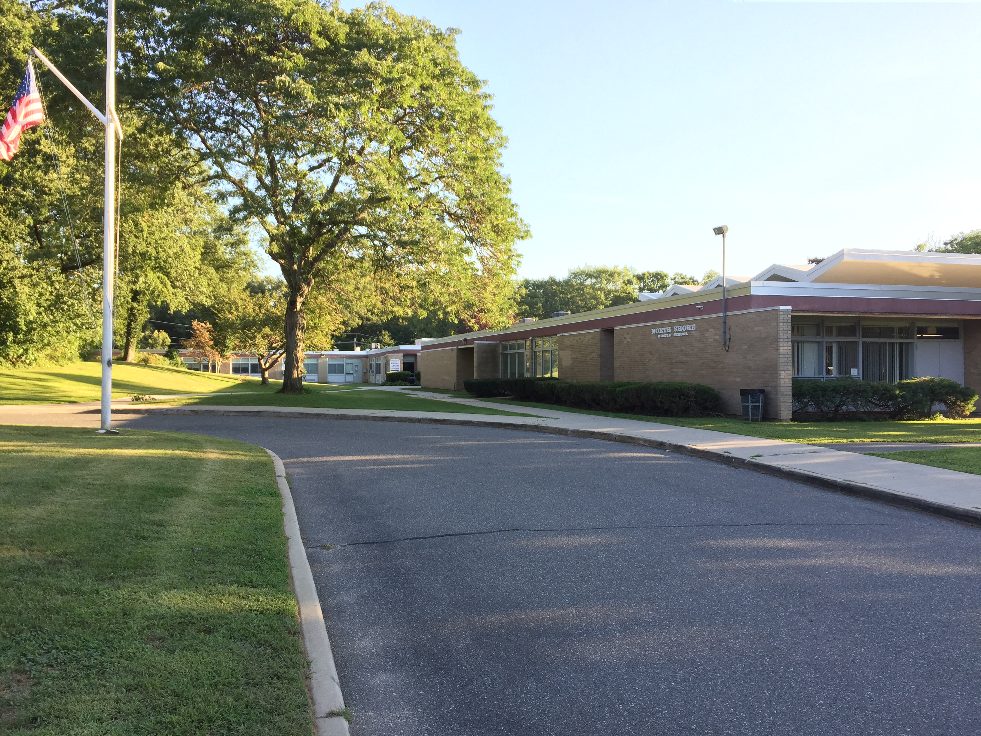 Main entrance of North Shore Middle School